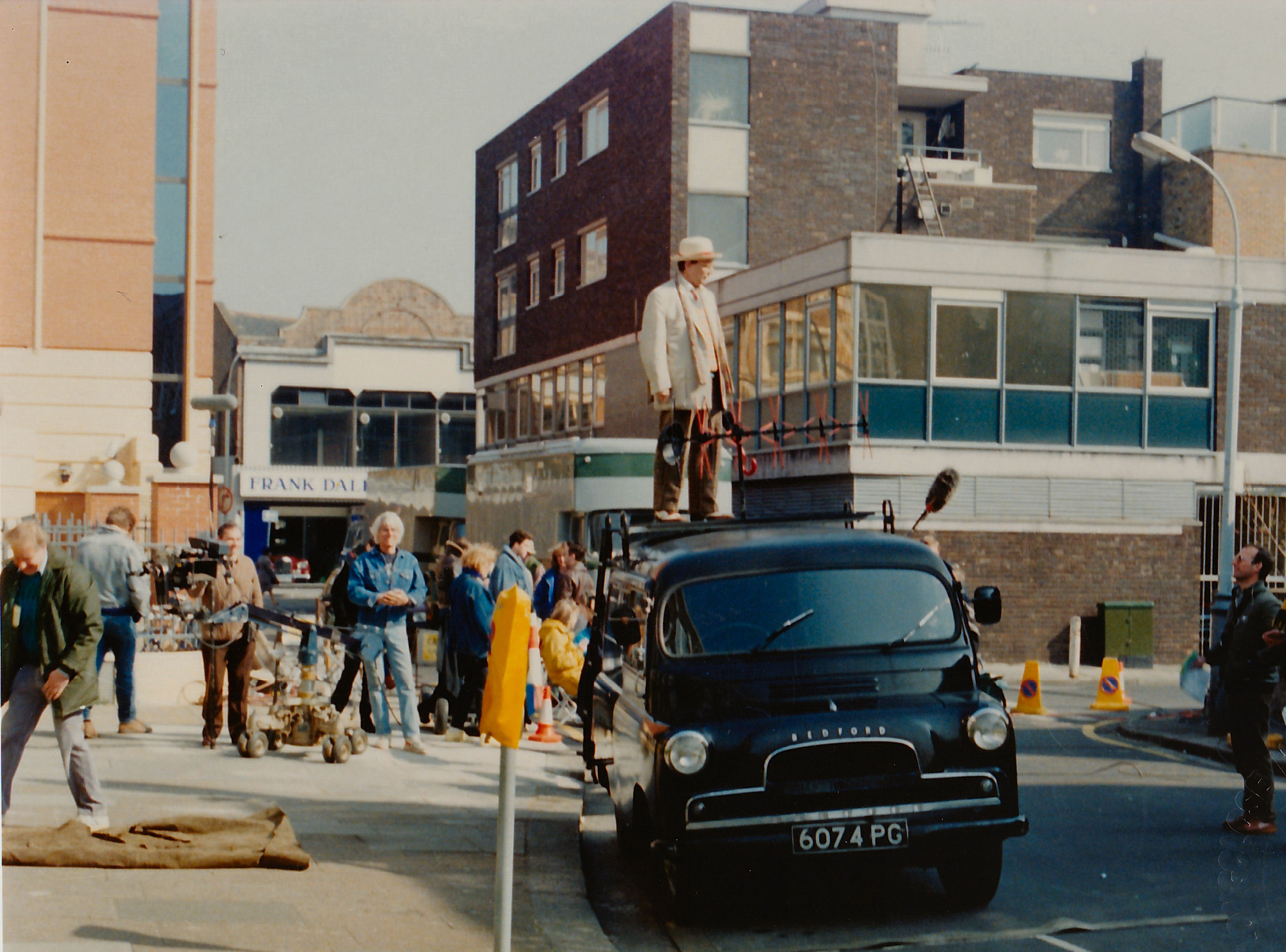 Sylvester McCoy on location during the making of Remembrance of the Daleks